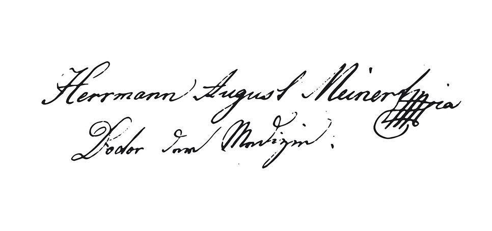 Signature of Herrmann August Meinert Српски (ћирилица): Потпис Хермана Августа Мајнерта